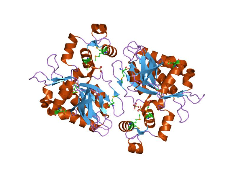 Cartoon representation of the molecular structure of protein registered with 1w2f code.